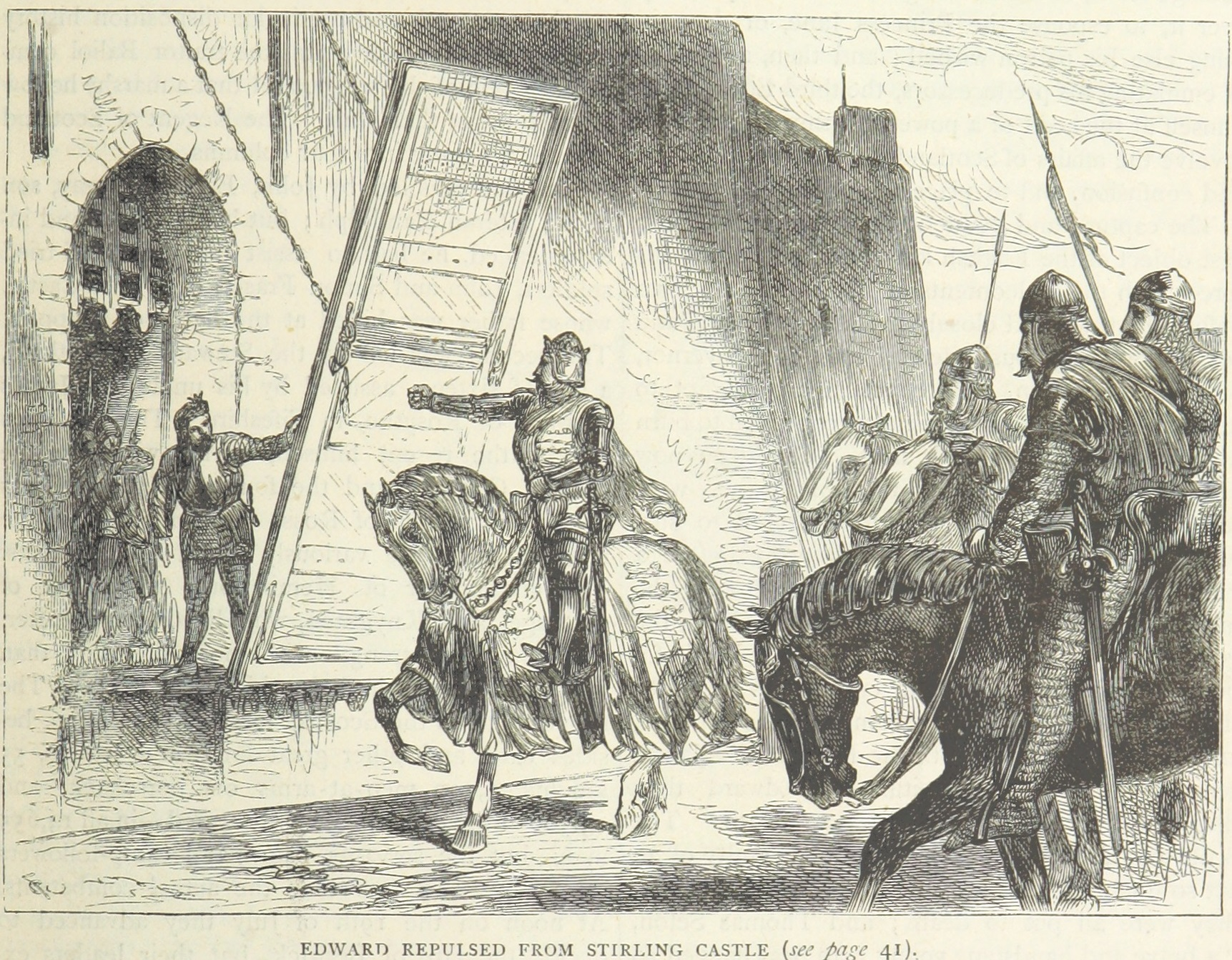 After the Battle of Banockburn, King Edward I of England tried to retreat to Stirling Castle, but the castle's lord honored an agreement with the Scottish and refused to let him enter.